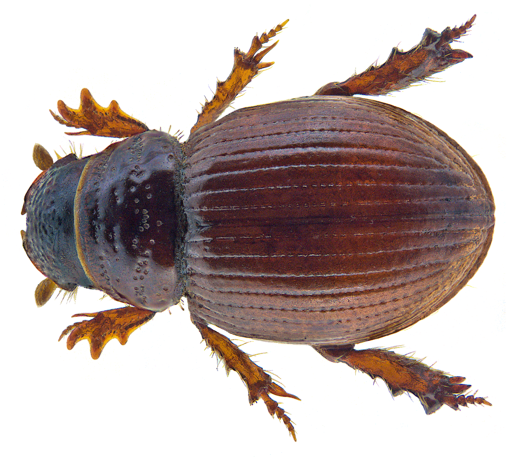 Dorsal view of Tesarius caelatus (LeConte, 1857).